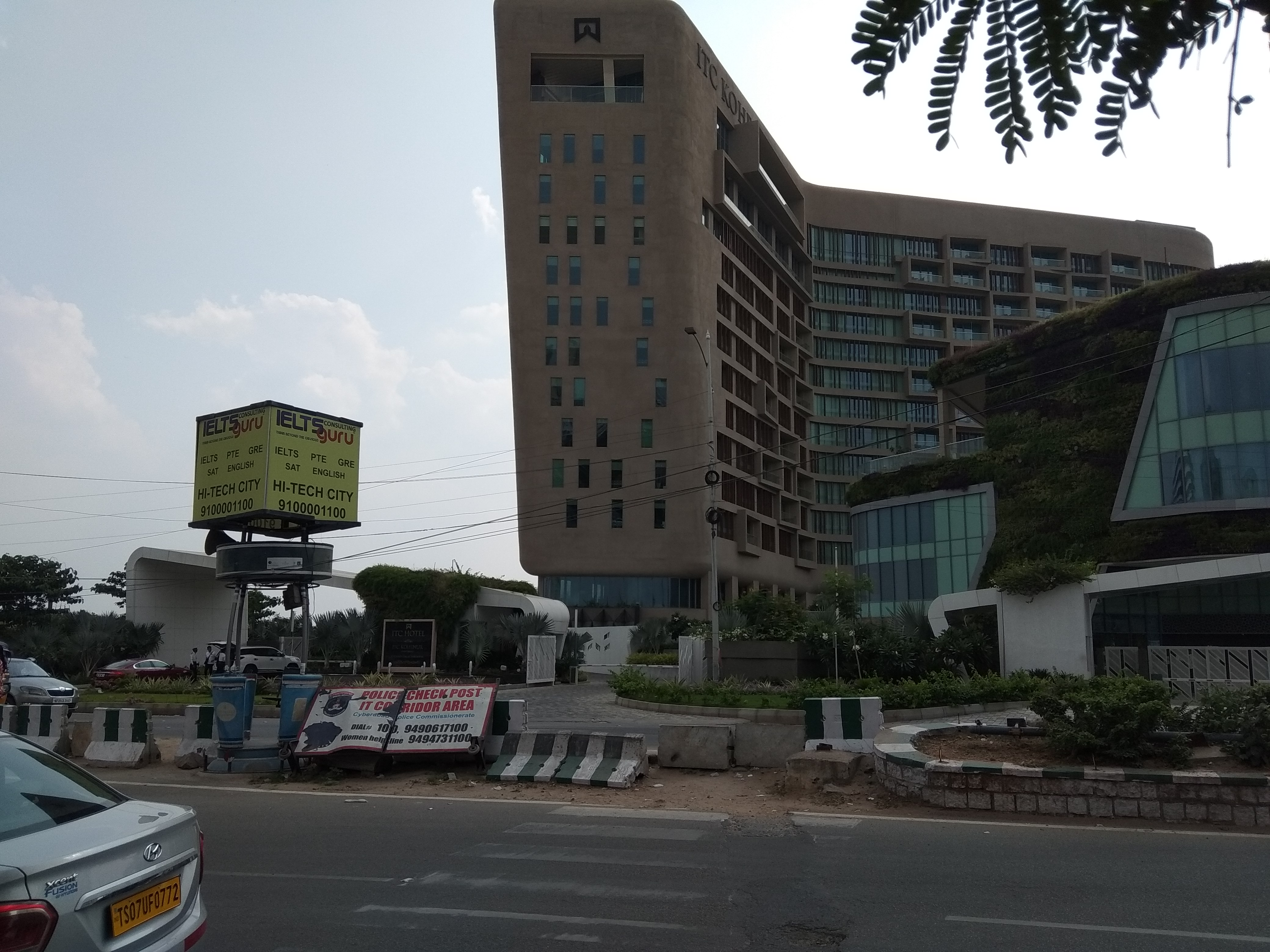 ITC Kohenur Hyderabad India